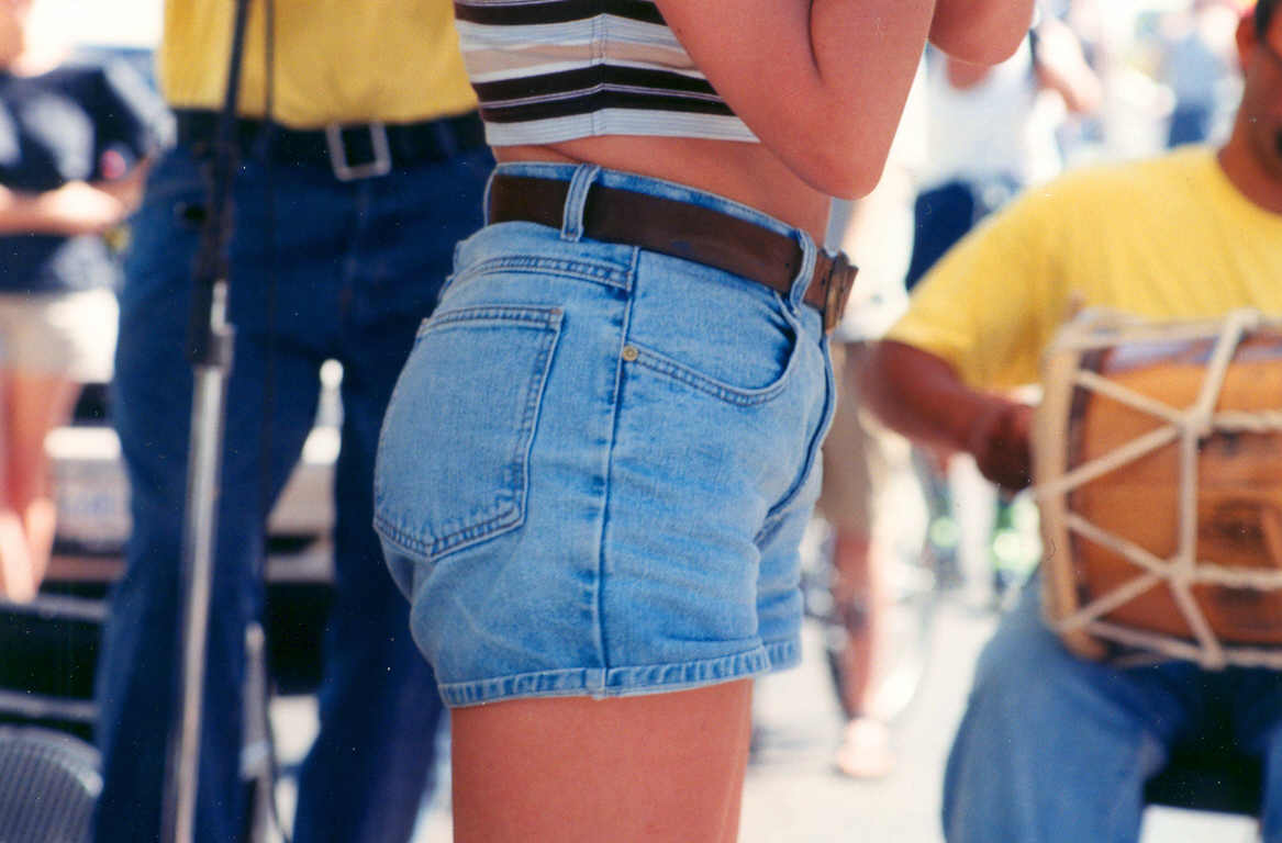 Kramerbooks & Afterwords Cafe . Block Party . 1517 Connecticut Avenue . 19/Q . NW WDC . 2 August 1998